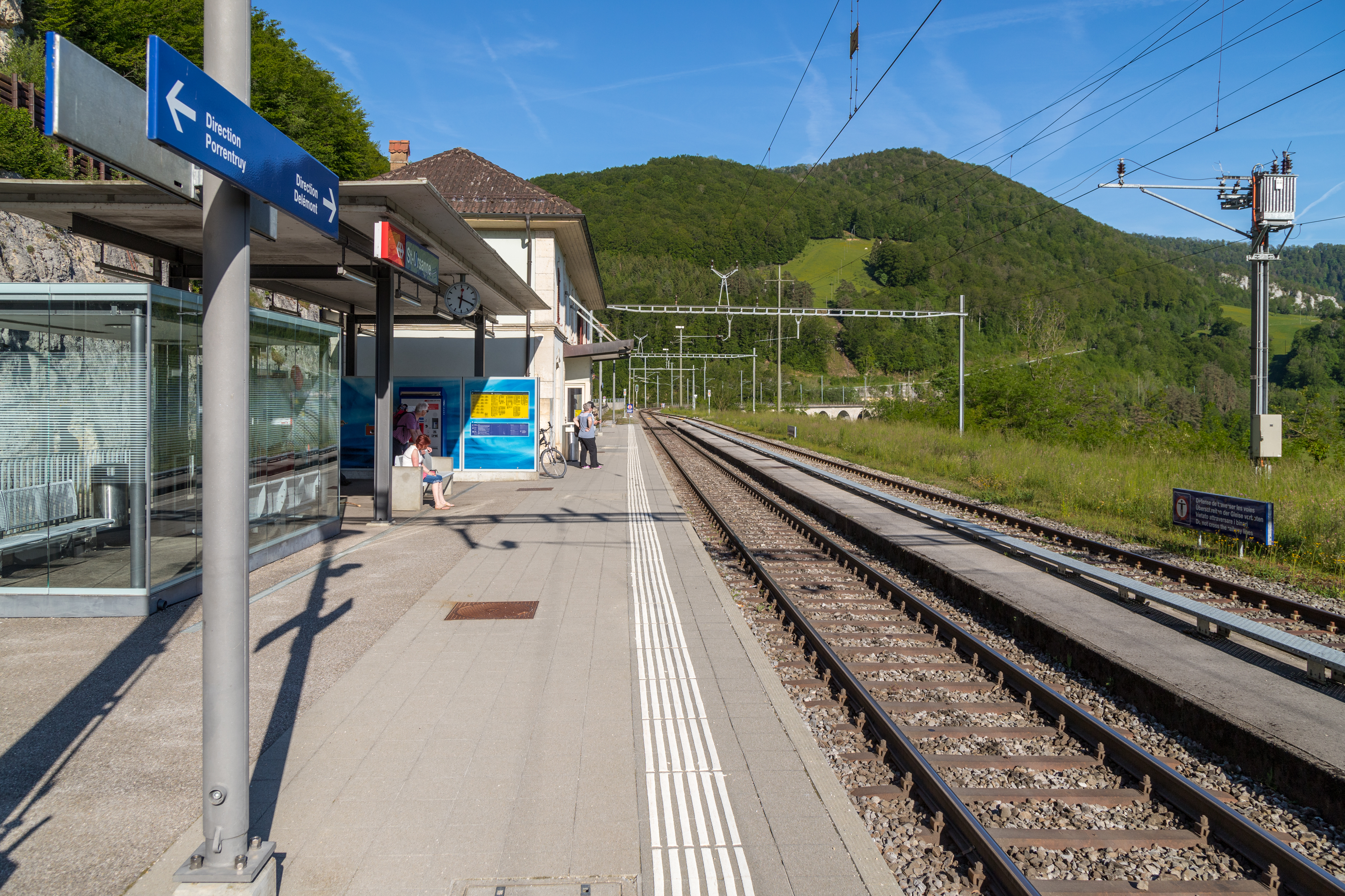 St-Ursanne railway station, canton of Jura, Switzerland.